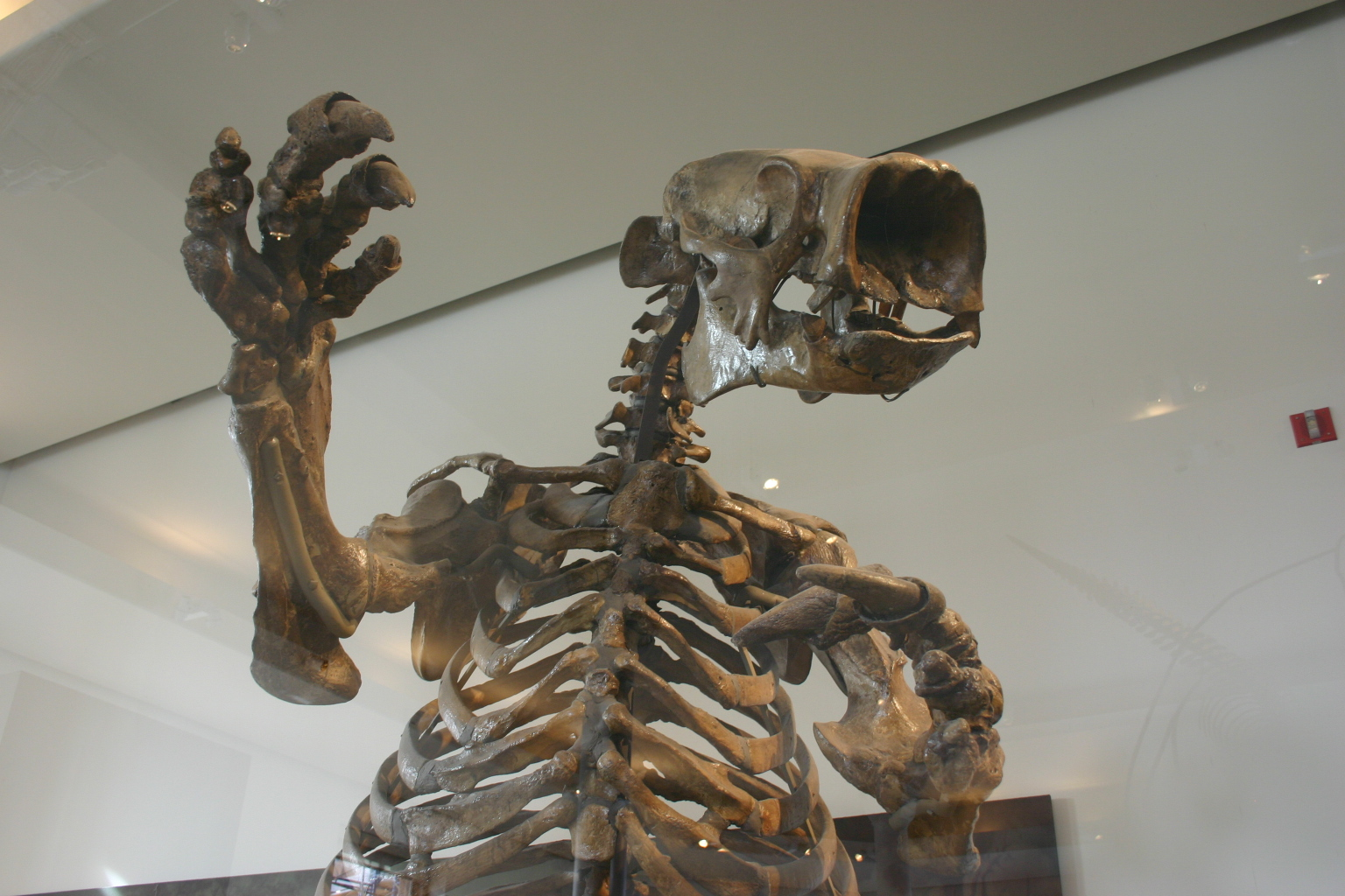 robber tooth Visit my blog at